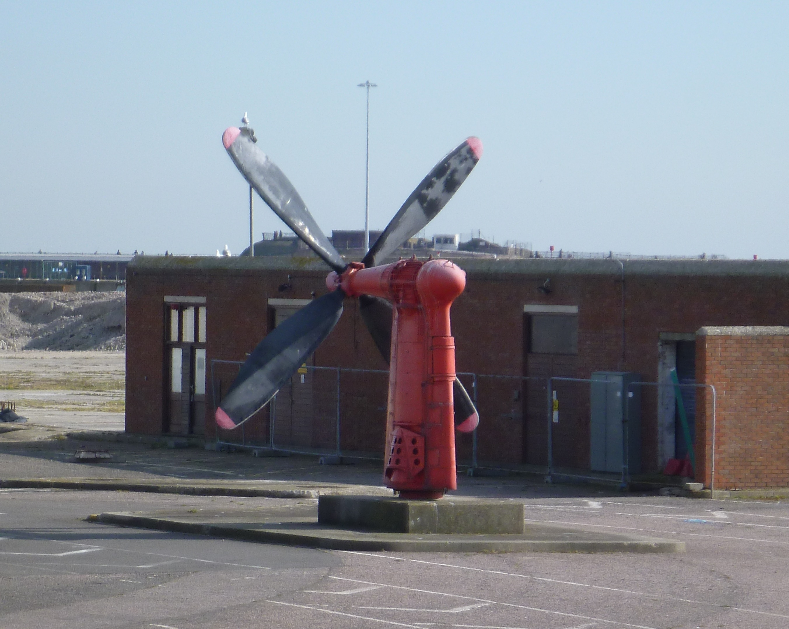 Hovercraft Propeller (SR.N4) at Dover harbour